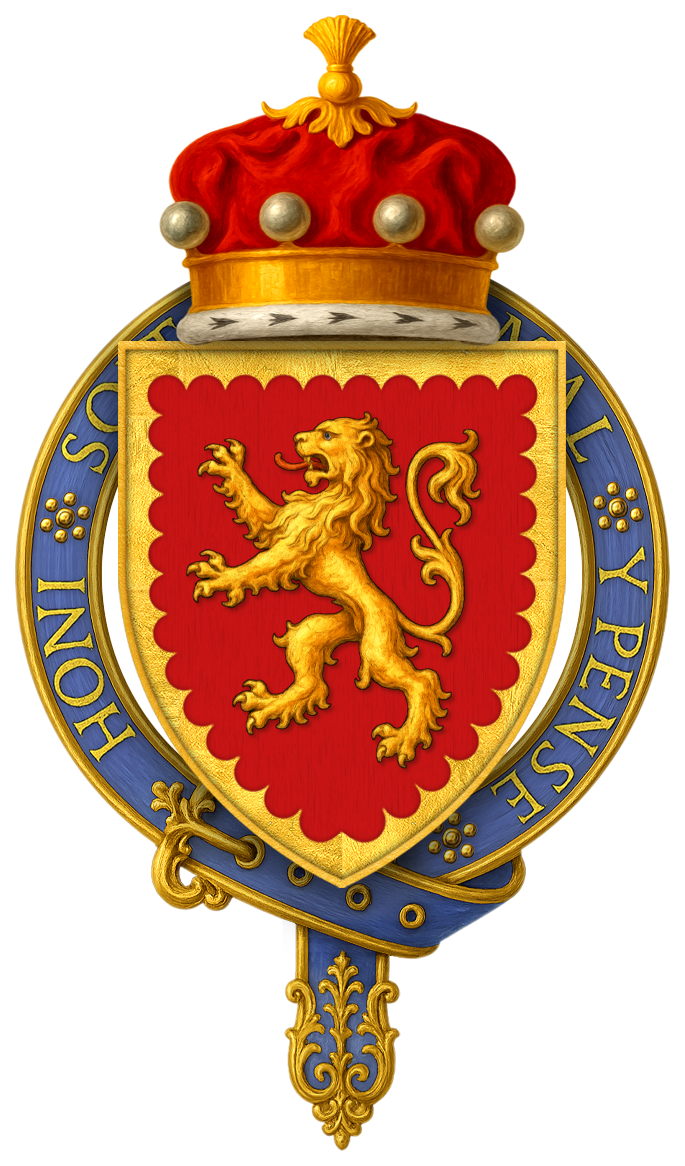 Coat of Arms of Sir Gilbert Talbot, 5th Baron Talbot, KG HOPE, W. H. St. John, ‘’The Stall Plates of the Knights of the Order of the Garter 1348 – 1485: A Series of Ninety Full-Sized Coloured Facsimiles with Descriptive Notes and Historical Introductions,’’ Westminster: Archibald Constable and Company LTD, 1901. “Sir Gilbert Talbot, Lord Talbot, K.G. 1407-8 -- 1419... arms, gules a lion and a bordure engrailed gold.” Stall plate remains intact within the fifth stall on the South side of the Chapel